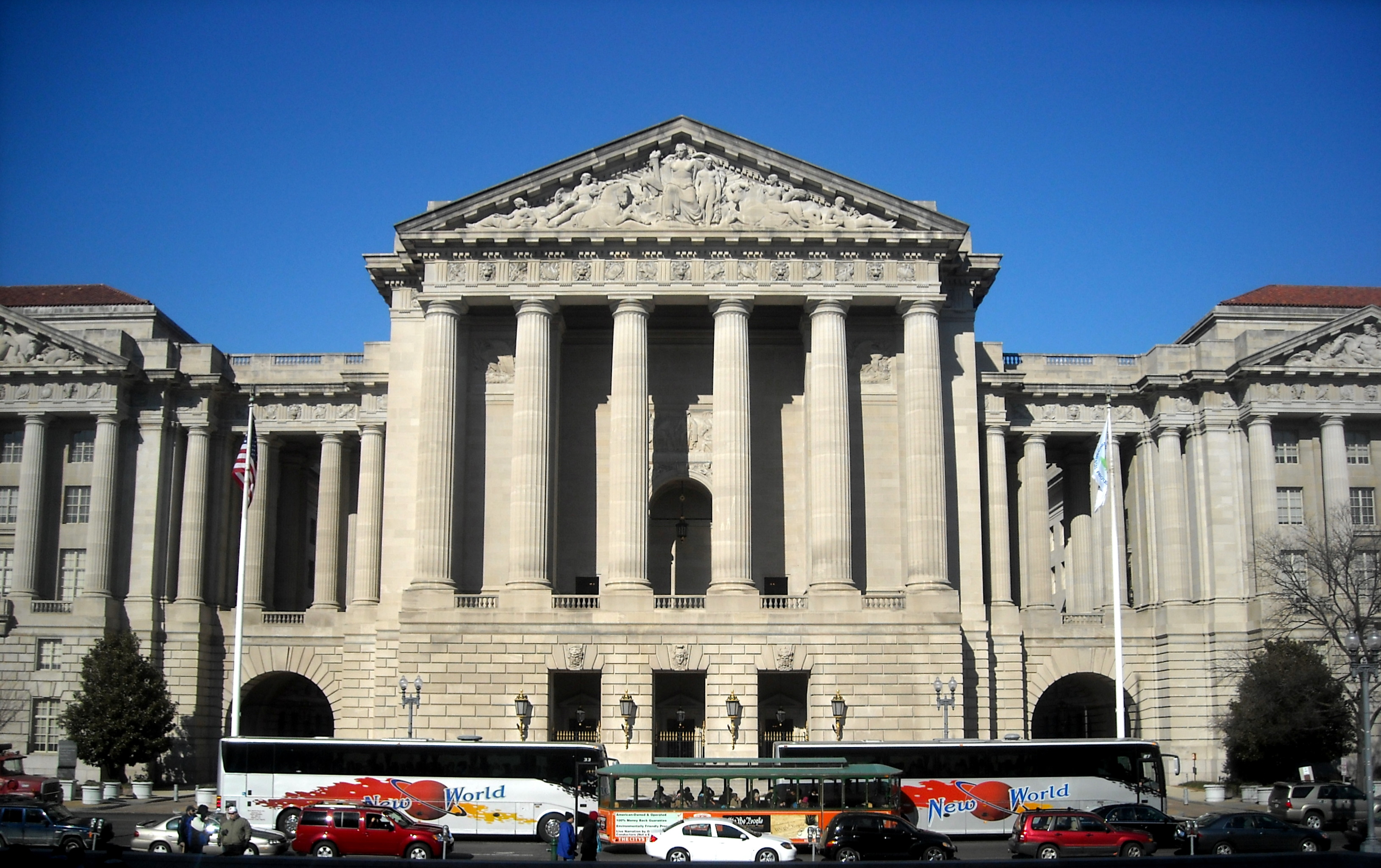 The Andrew W. Mellon Auditorium (center building) located at 1301 Constitution Avenue, NW in the Federal Triangle area of Washington, D.C. Originally known as the Treasury Department Auditorium, the building was designed by Arthur Brown, Jr. and constructed between 1928–1934. A sculpture by Edgar Walter, named Columbia, is within the pediment. In addition to the 2500-seat assembly hall, the building contains several offices and small meeting rooms. The buildings on either side of the auditorium are part of the William J. Clinton Federal Building, which houses headquarters offices for the Environmental Protection Agency. Notable events which have taken place at the auditorium include Franklin D. Roosevelt's initiation of the Selective Service System on October 29, 1940, and the signing of the North Atlantic Treaty on April 4, 1949. The auditorium is a contributing property to the Pennsylvania Avenue National Historic Site.